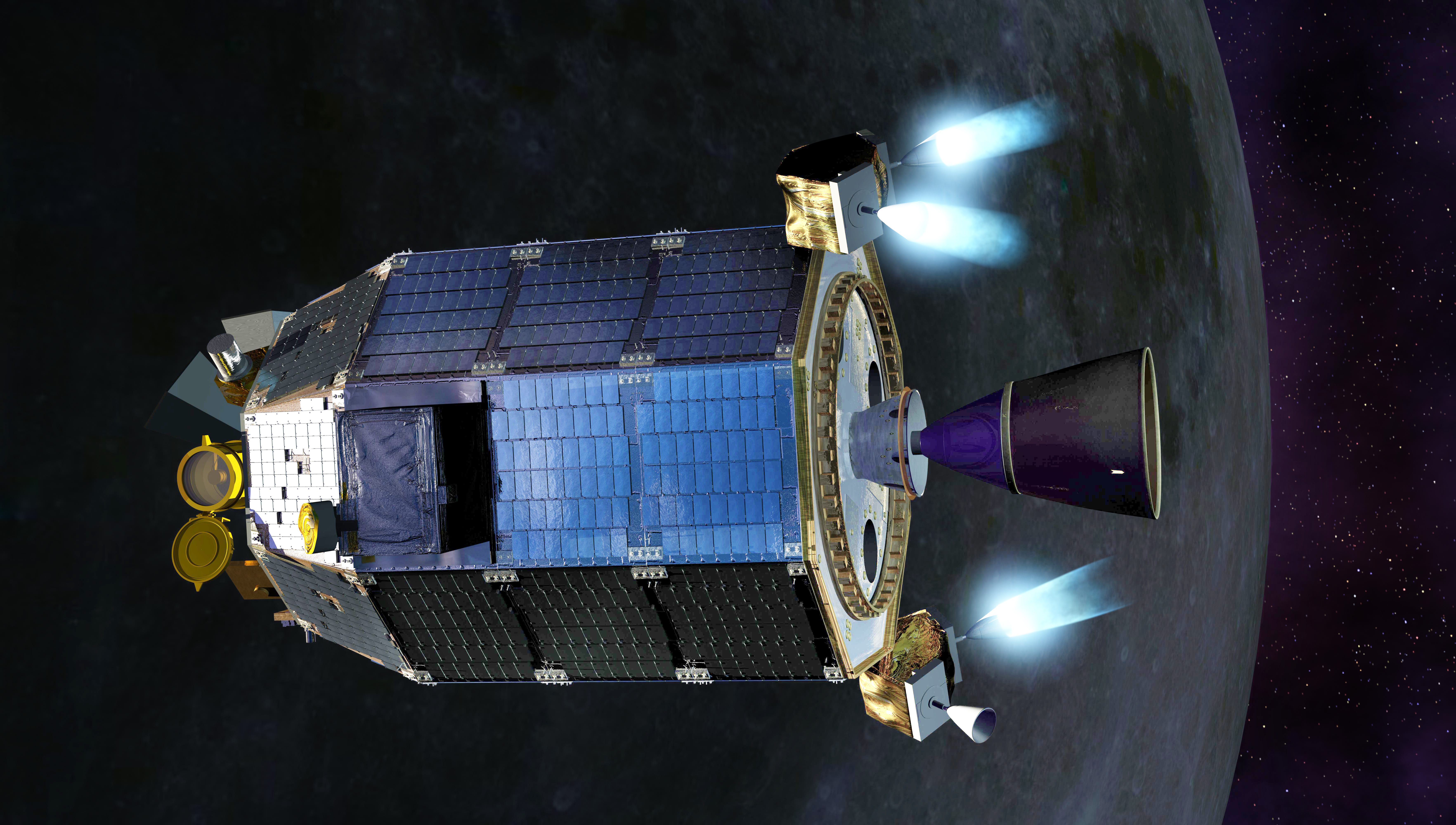 An artist's concept of NASA's Lunar Atmosphere and Dust Environment Explorer (LADEE) spacecraft firing its maneuvering thrusters in order to maintain a safe altitude as it orbits the moon.